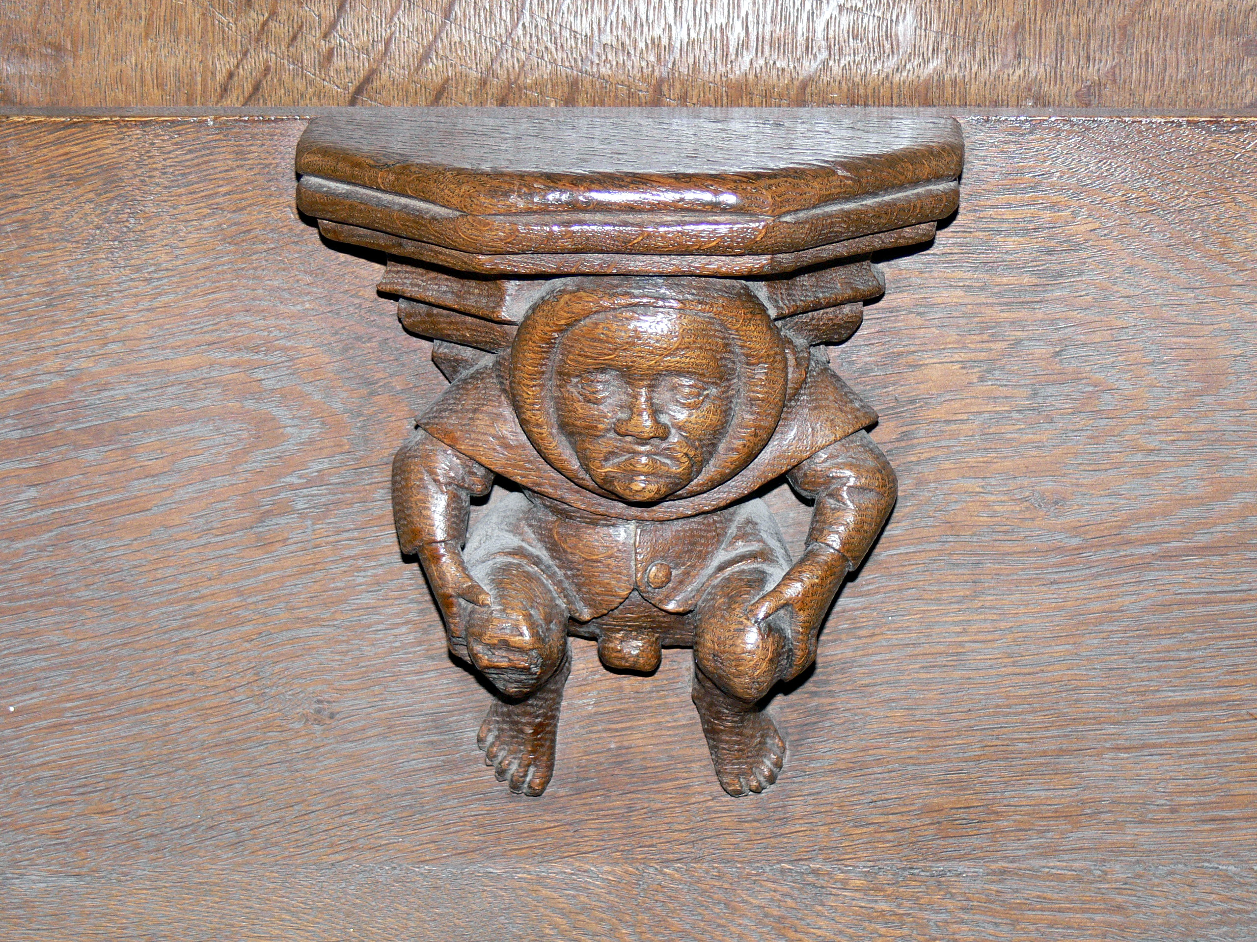 Ulm minster. Choir stalls - Misericord